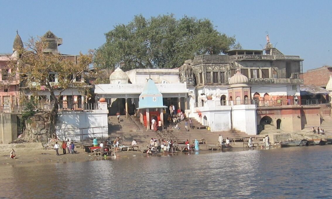 View of the Brahmavart ghaT from boat on the ganga. Taken by me at 10 AMon Feb 22, 2006. Cropped from IMG_1167.jpg. The stairs leading down to the river have a small templein the middle. This temple has a shrine with a peg stickingout of it. This peg is the axis around which the universeis turning (brahma = universe, Avarta = rotation; brahmavart = the spot about which the universe rotates). Feb 22 was Shivaratri, a major Indian festival honouring shiva. A number of cots have been lowered into the riverbank for performing a small puja offering by devotees who will then cross the ganga and go on a two-day trek (about 80 km) carrying ganges water (which cannot be set down on the ground for this period), which will then be poured on a lingam representing shiva. A team of two people carry two pots of water; when they need to rest, one must stand holding them while the other rests.